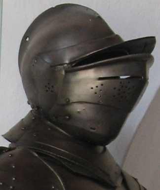 Fragment of the Image:Krásna Hôrka 37.JPG, showing the burgonet helmet with buffe.